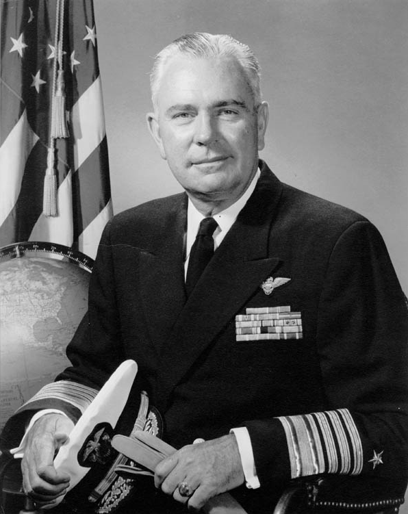 Admiral George W. Anderson, Jr., USN, 16th Chief of Naval Operations